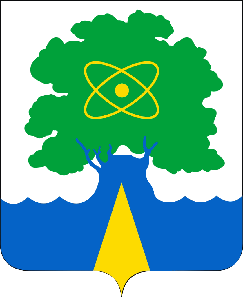 Coat of arms of Dubna (Moscow oblast)